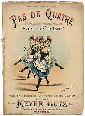 Sheet music cover from Faust up to date featuring the skirt dance, 1888